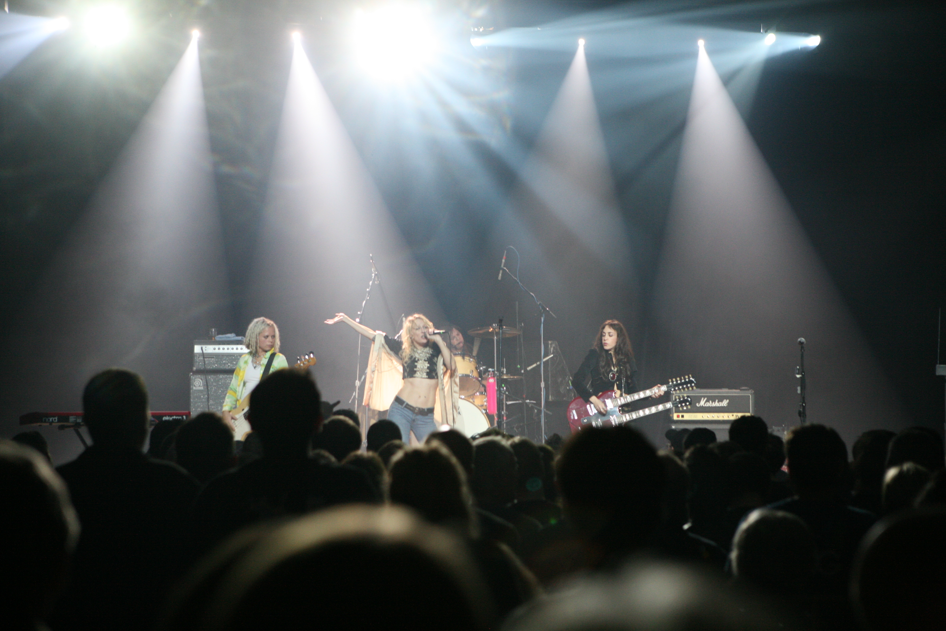 Lez Zeppelin at the State Theatre in Falls Church, VA, on October 30, 2009.